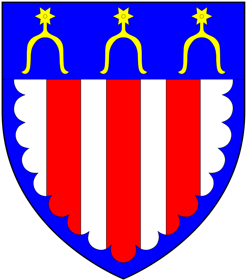 Arms of Knight of Downton, Shropshire: Argent, three pales gules within a bordure engrailed azure on a chief of the last three spurs or (Burke's Genealogical and Heraldic History of the Landed Gentry, 15th Edition, ed. Pirie-Gordon, H., London, 1937, p.1306, pedigree of Rouse-Boughton-Knight of Downton Castle, 1st quarter). Blazoned similarly for their cousins Knight of Wolverley, Worcestershire, in: Victoria County History, Worcestershire, Vol.3, 1913, Parishes: Wolverley, pp.567-573 as: Argent, three pales gules in a bordure engrailed azure on a quarter gules a spur or (Victoria County History, Worcestershire, Vol.3, 1913, Parishes: Wolverley, pp.567-573)